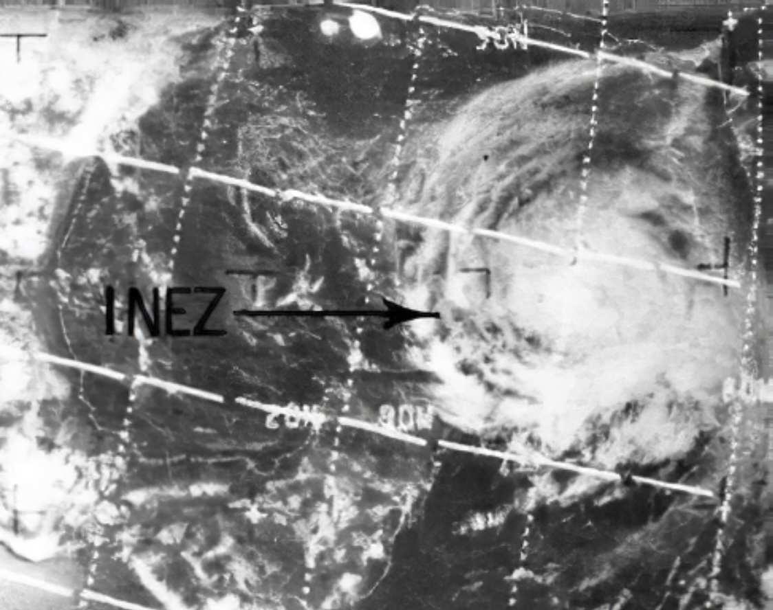 ESSA 3 television photograph (orbit 042) on October 5, 1966 at 2016 GMT over Hurricane Inez.